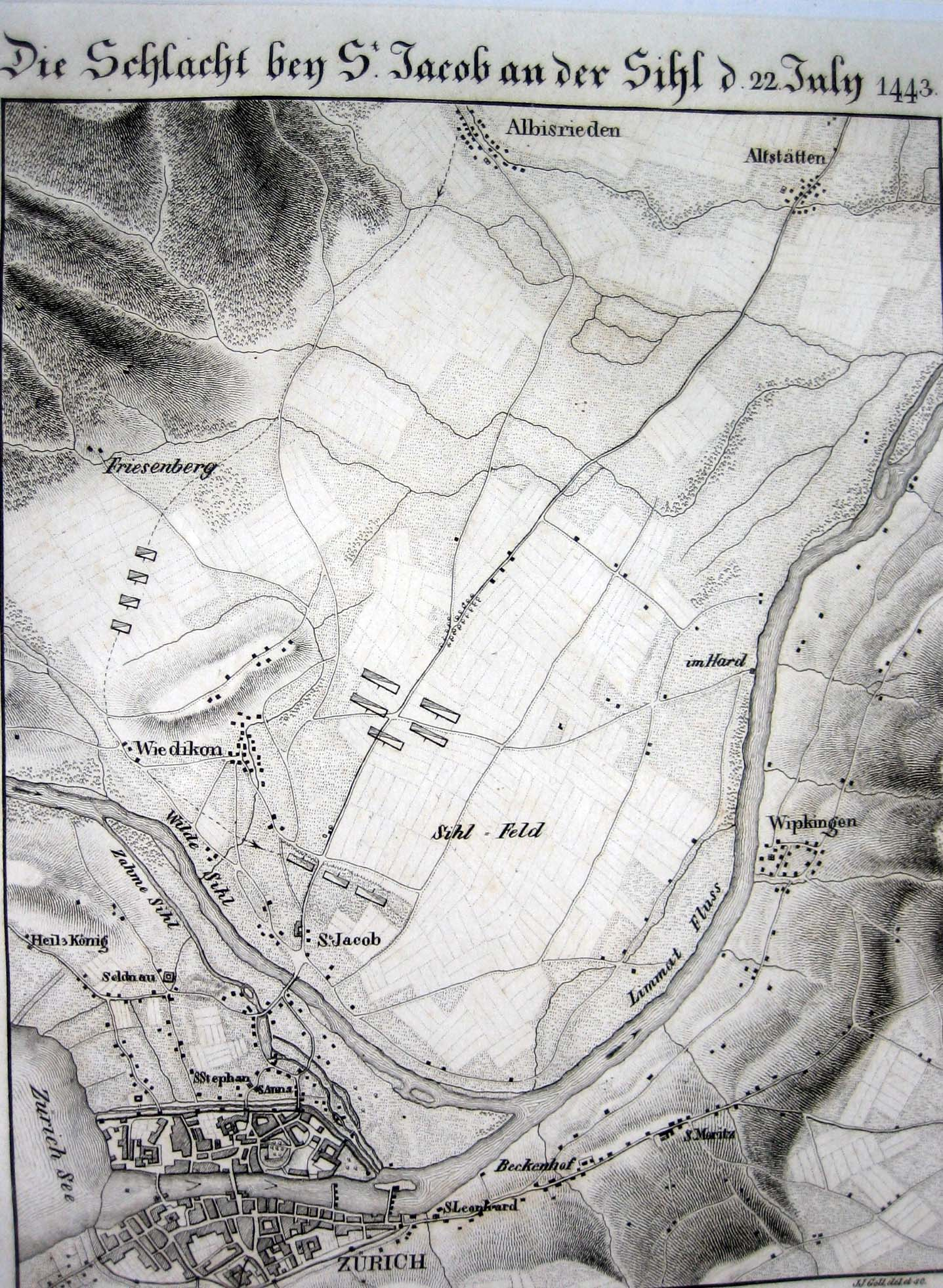 Map of the Battle of St. Jakob an der Sihl during the Old Zürich War, 22. Juli 1443